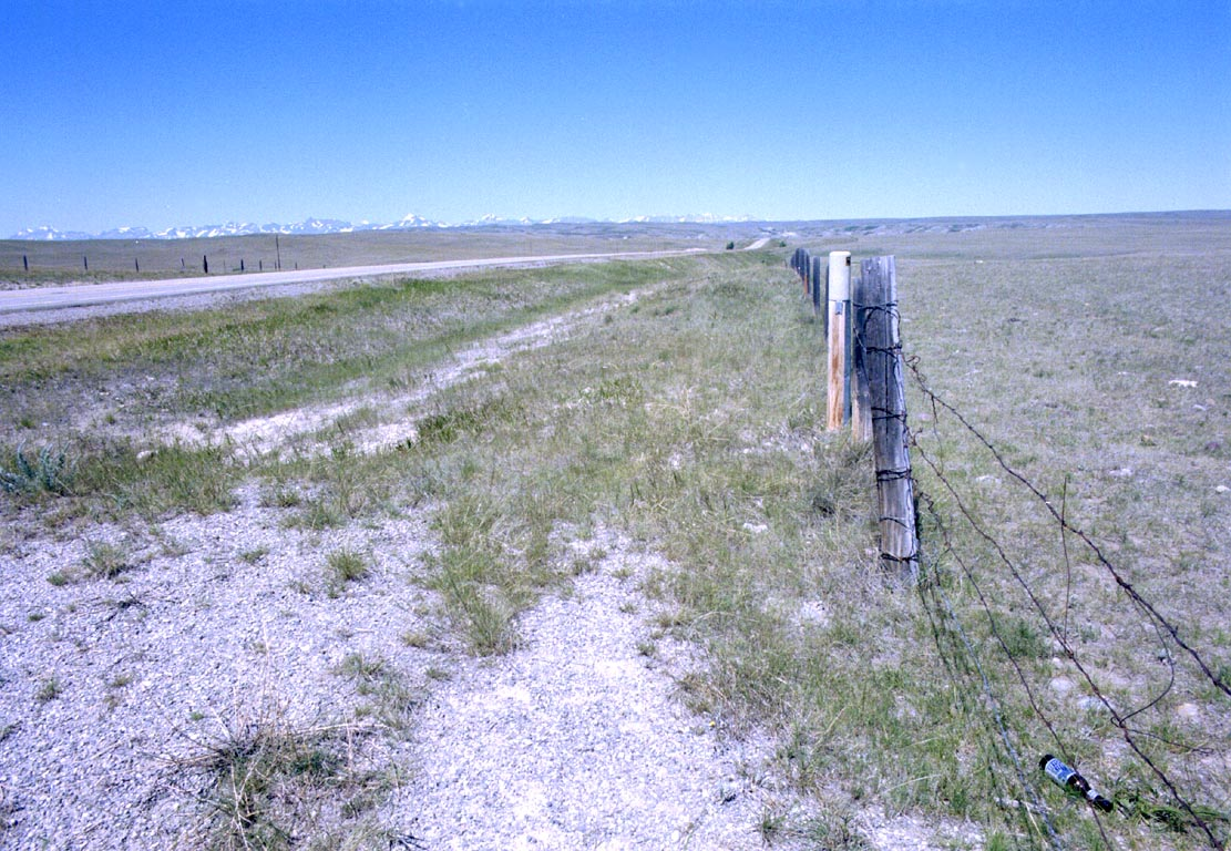 Blackfeet Reservation in Montana, summer 1997. Looking from the roadside of U.S. Highway 2 West just short of the town of Browning, towards northwest (Rocky Mountains with snowcaps on the left to the West). Example of barb wire fencing and dry high prairie.